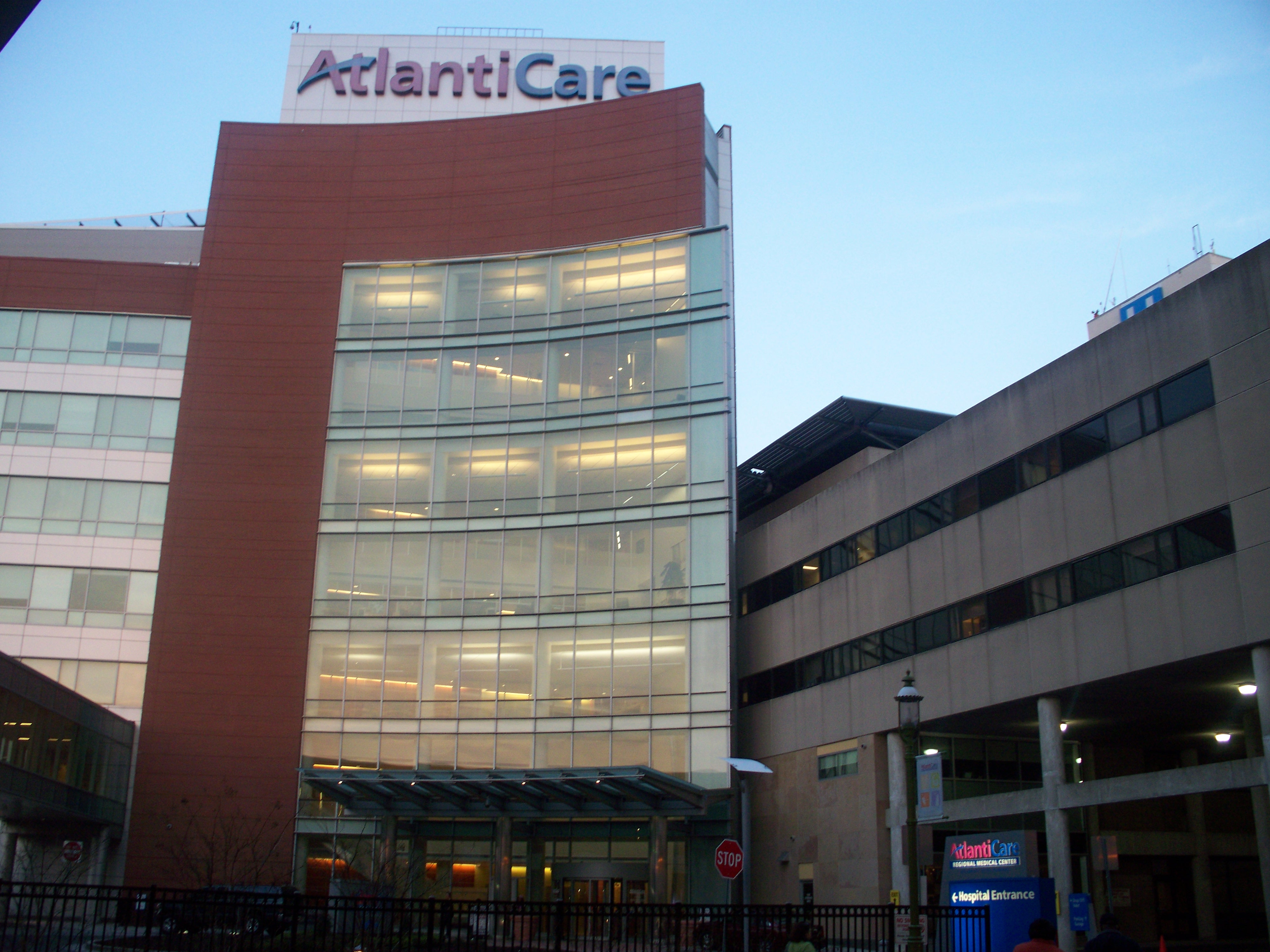 AtlantiCare Regional Medical Center Atlantic City Campus in Atlantic City, NJ. Photo Taken from Street View Across the street of the AtlantiCare Regional Medical Center at the Parking Garage for Caesars Casino in Atlantic City, NJ